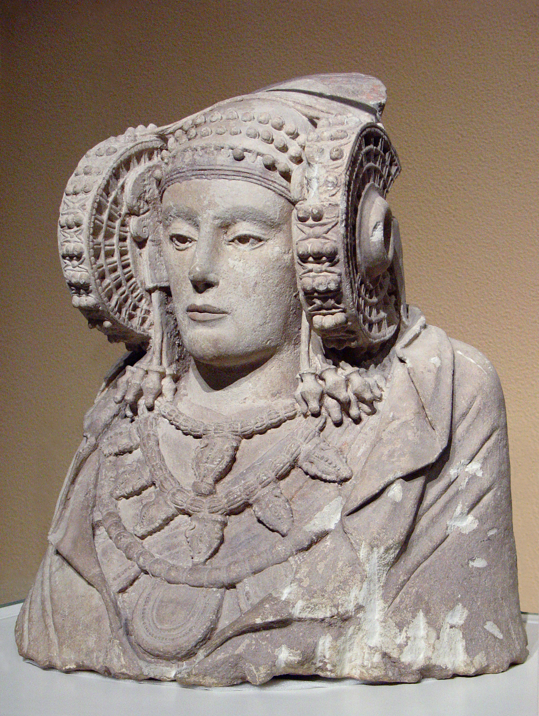 Iberian sculpture.